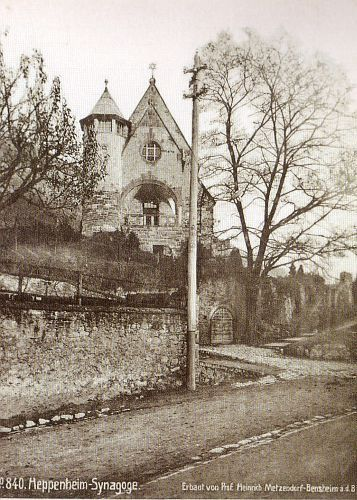 Synagogue of Heppenheim in Germany (Hesse), built in 1900, destroyed by the nazis in 1938 during the Kristal Nacht